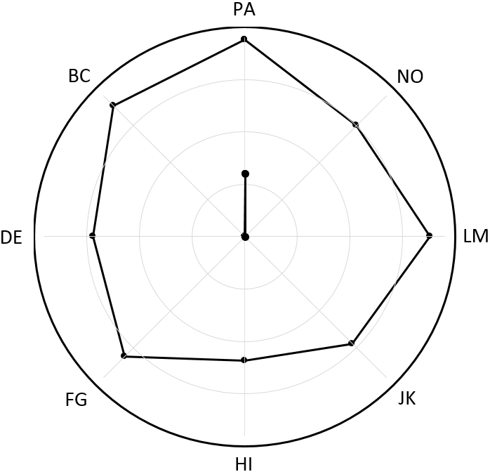 Borderline personality disorder on interpersonal circumplex Based on: Kenneth D. Locke (2006): 'Measurement and Assessment' in Stephen Strack Differentiating Normal and Abnormal Personality, Springer, p.395